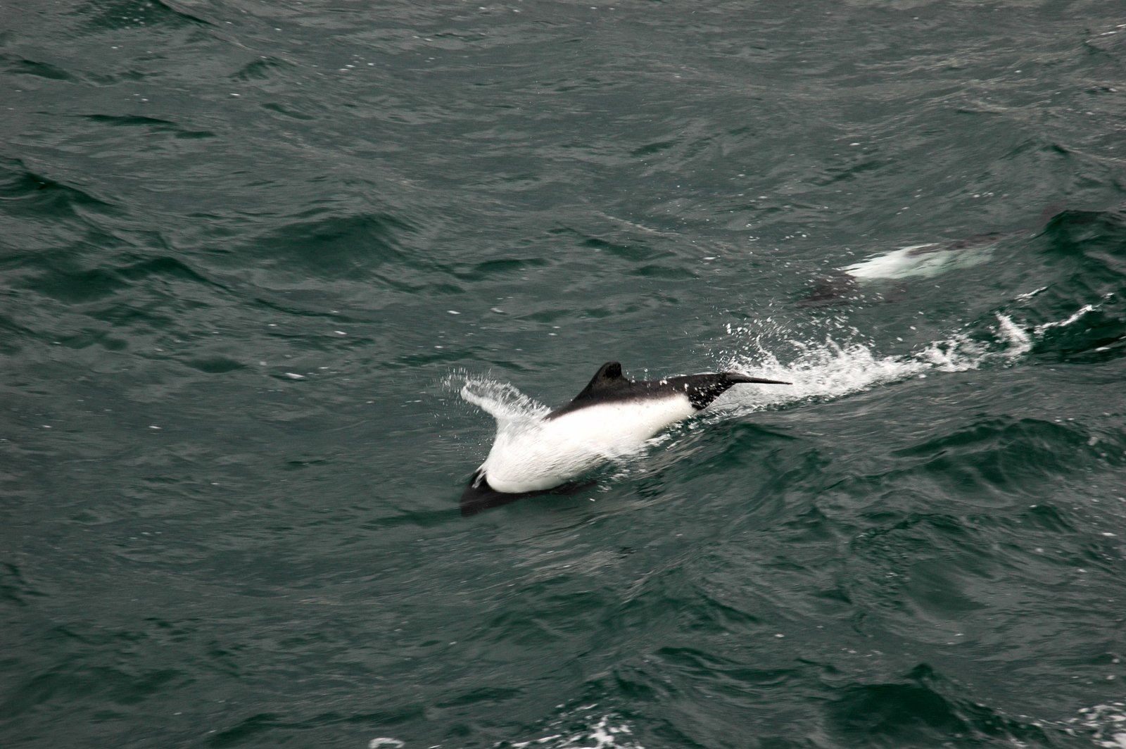 Commerson's Dolphin (Cephalorhynchus commersonii) in the Strait of Magellan.